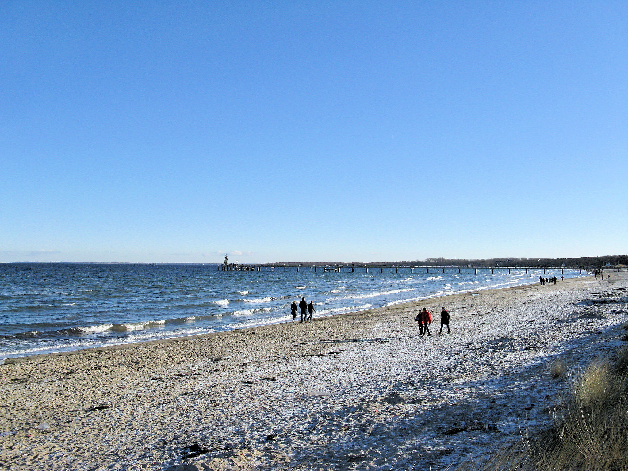 Baltic sea beach and pier (in the background) of Boltenhagen, Mecklenburg-Vorpommern, Germany